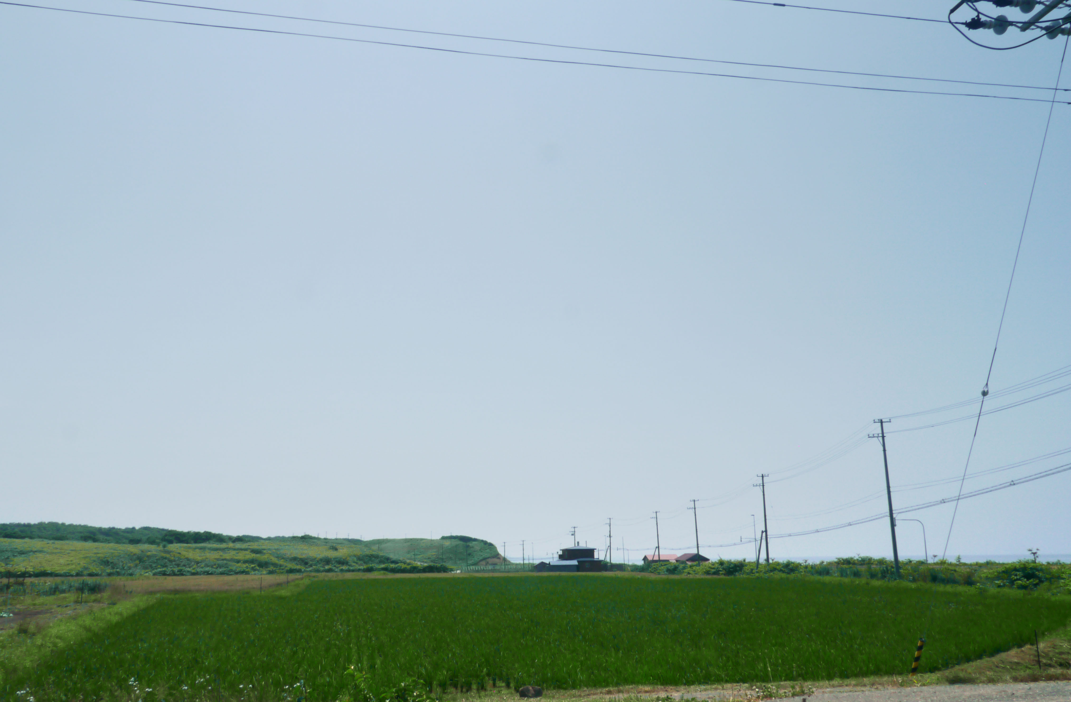 The remains of Teshiosakae Station of the Haboro Line in Hokkaido, Japan. Photo taken on July 28, 2011.